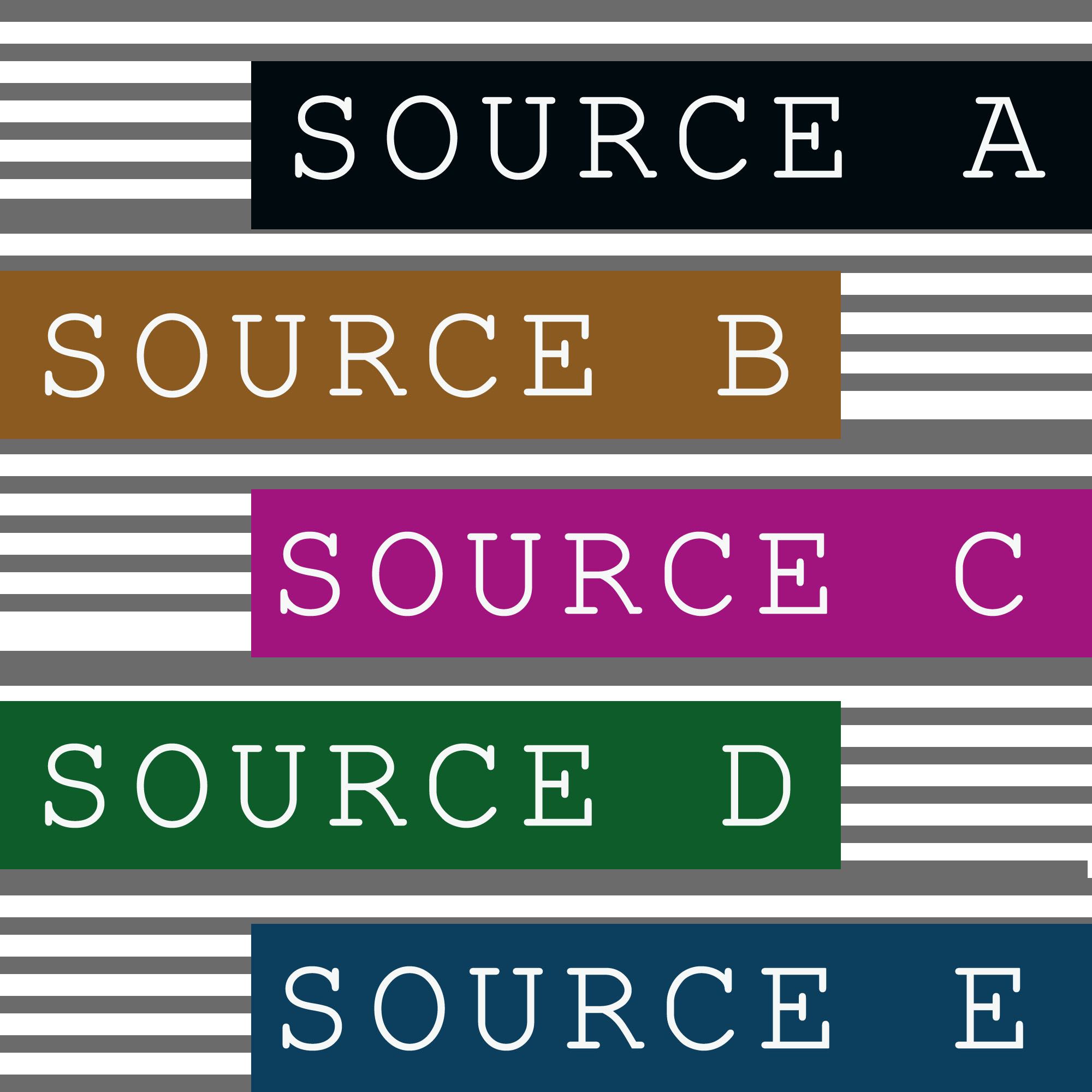 Multiple Sources example